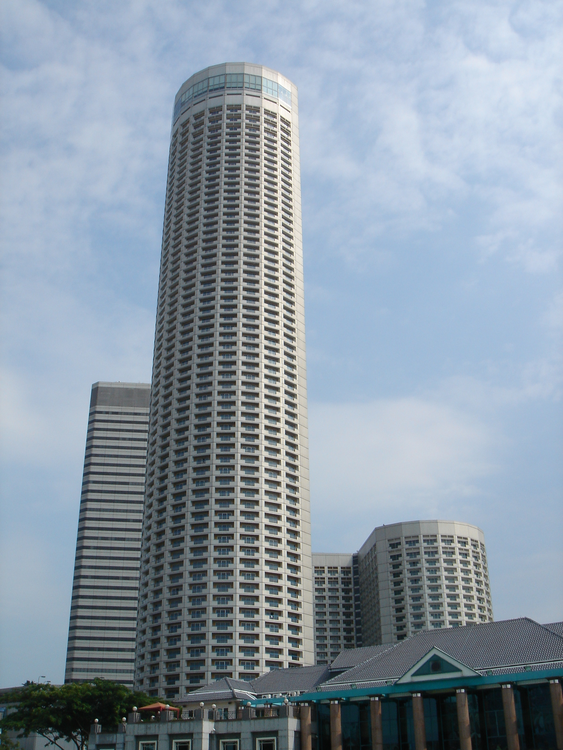 Swissôtel The Stamford and its sister hotels, Singapore.